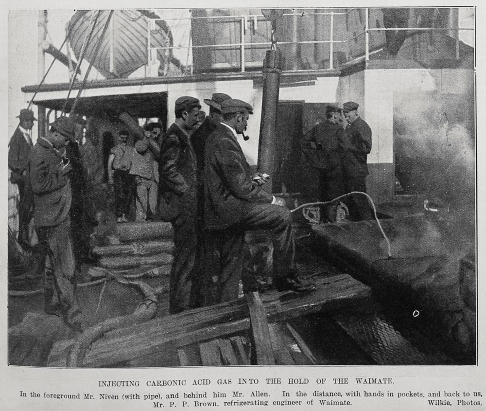 Jas J Niven with pipe Fire in the hold of the New Zealand Shipping Company's S S Waimate when at anchor in the Napier Roadstead. 3 December 1901 Injecting carbonic acid gas in to the hold of the Waimate. In the foreground Mr Niven (with pipe), and behind him Mr Allen. In the distance, with hands in pockets, and back to us, Mr P.P. Brown, refrigerating engineer of Waimate.